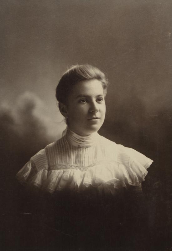 Title Margaretta Lammot (du Pont) Carpenter, 1884- Date Created (start) 1900 Date Created (end) 1920 Former owner Du Pont, Pierre S. (Pierre Samuel), 1870-1954 Subject(s) - Name Carpenter, Margaretta du Pont, 1884-1973 Find all items with name(s) Du Pont, Pierre S. (Pierre Samuel), 1870-1954 Carpenter, Margaretta du Pont, 1884-1973 Genre portrait photographs Language English Type of resource still image Extent 1 photographic print : b&w